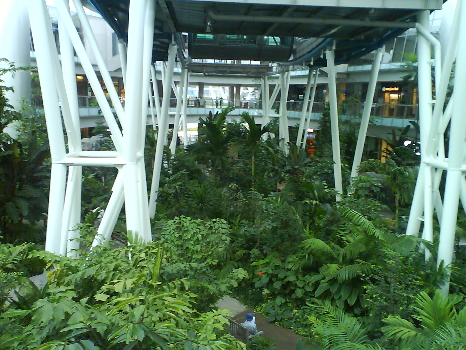 The Yakult Rainforest Discovery garden located in the Singapore Flyer